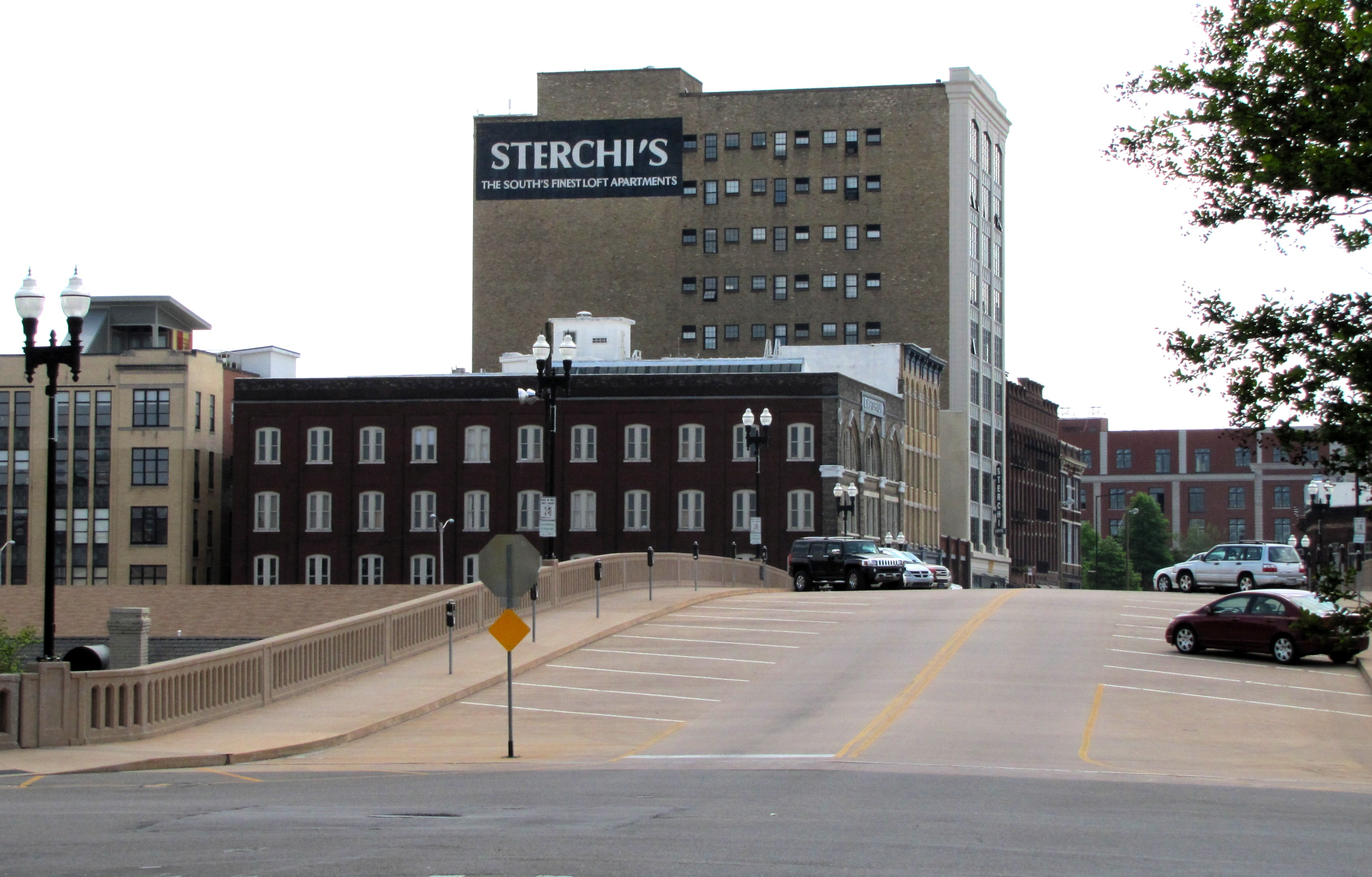 View across the Gay Street Viaduct from the intersection of North Gay Street and Depot Avenue in Knoxville, Tennessee, USA. The buildings of South Gay Street's 100 block rise on the other side.